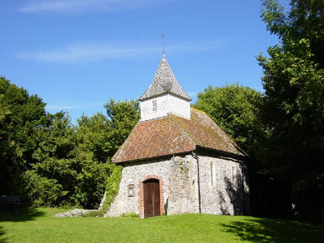 Lullington Church - The Church of the Good Shepherd. Possibly the smallest church in the country - only 5 square metres. Services are held here on the third Sunday of the month. The remains of a larger twelfth century church can be seen just to the right of the door and in the church yard.